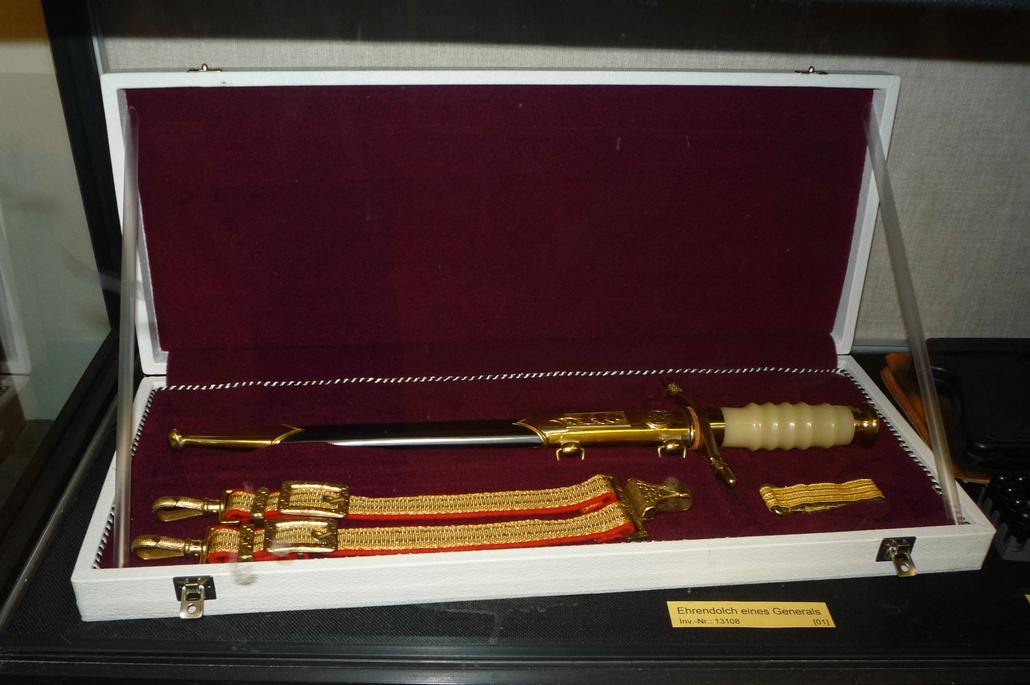 "Dagger of honour" of the National People’s Army until 1990, here for Generals and Flagg officers in design gold casting.